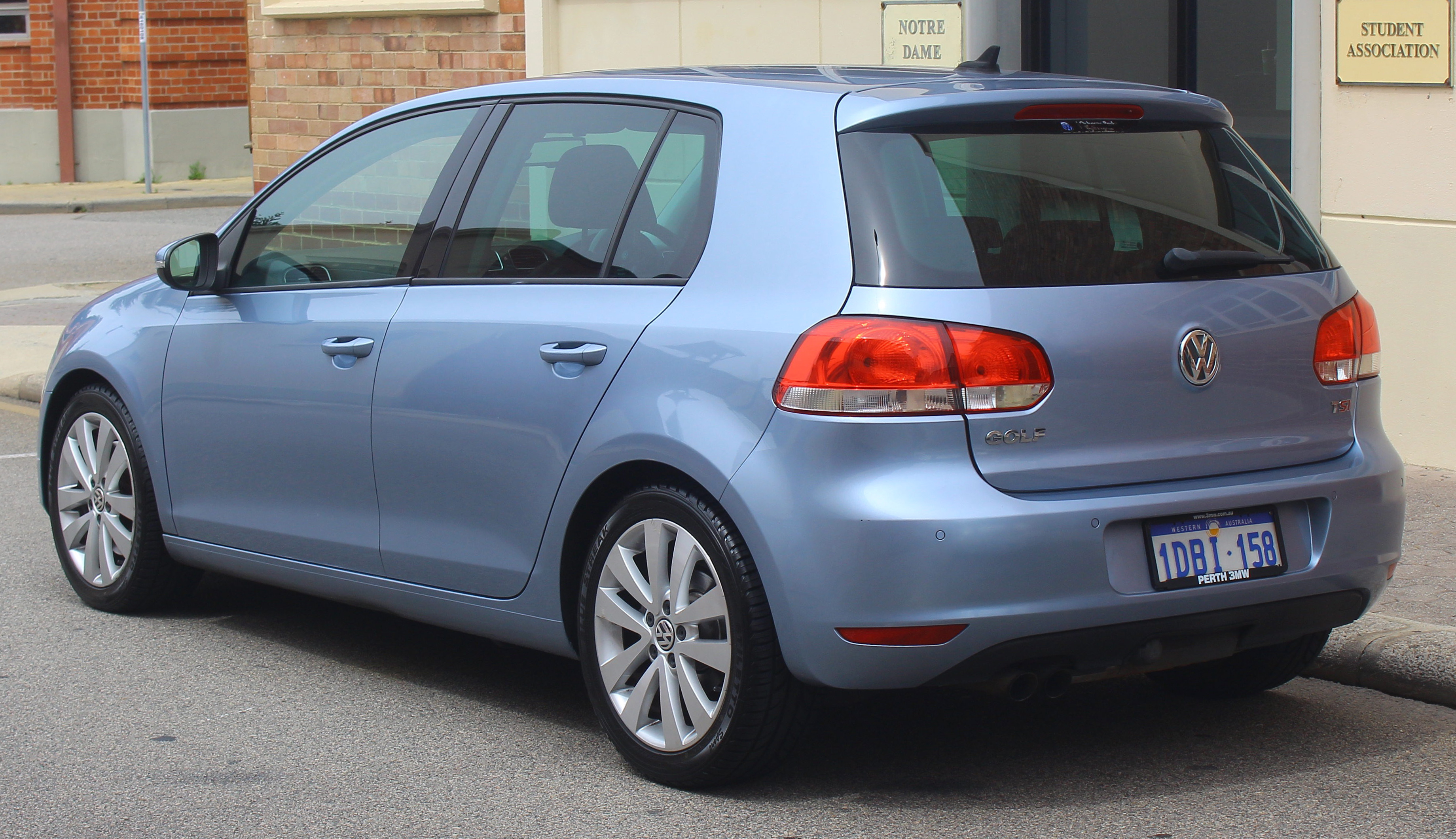 2009-2012 Volkswagen Golf (5K) 118TSI Comfortline 5-door hatchback. Photographed in Fremantle, Western Australia, Australia.